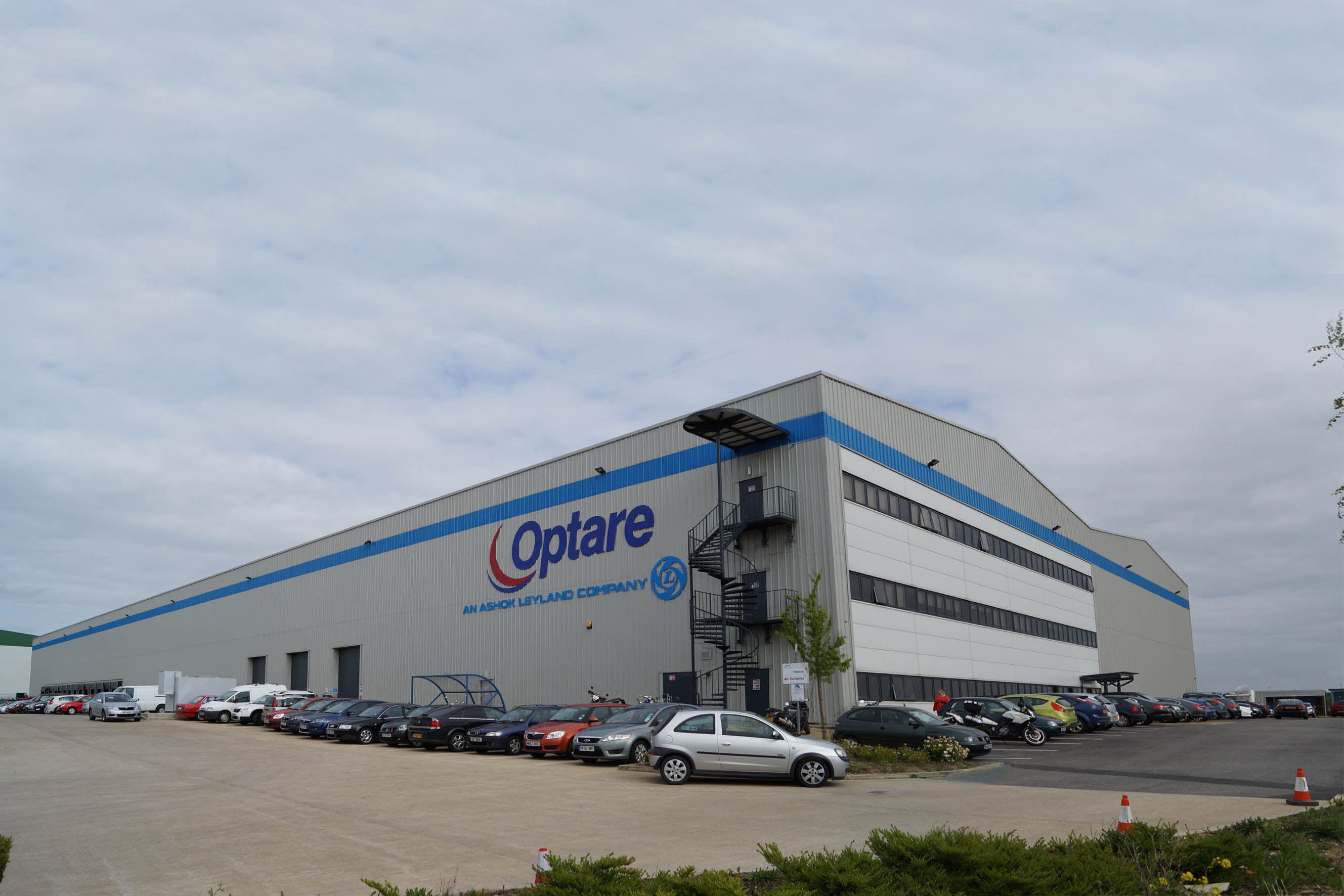 Optare's new state-of-the-art manufacturing plant at Sherburn in Elmet, near Leeds